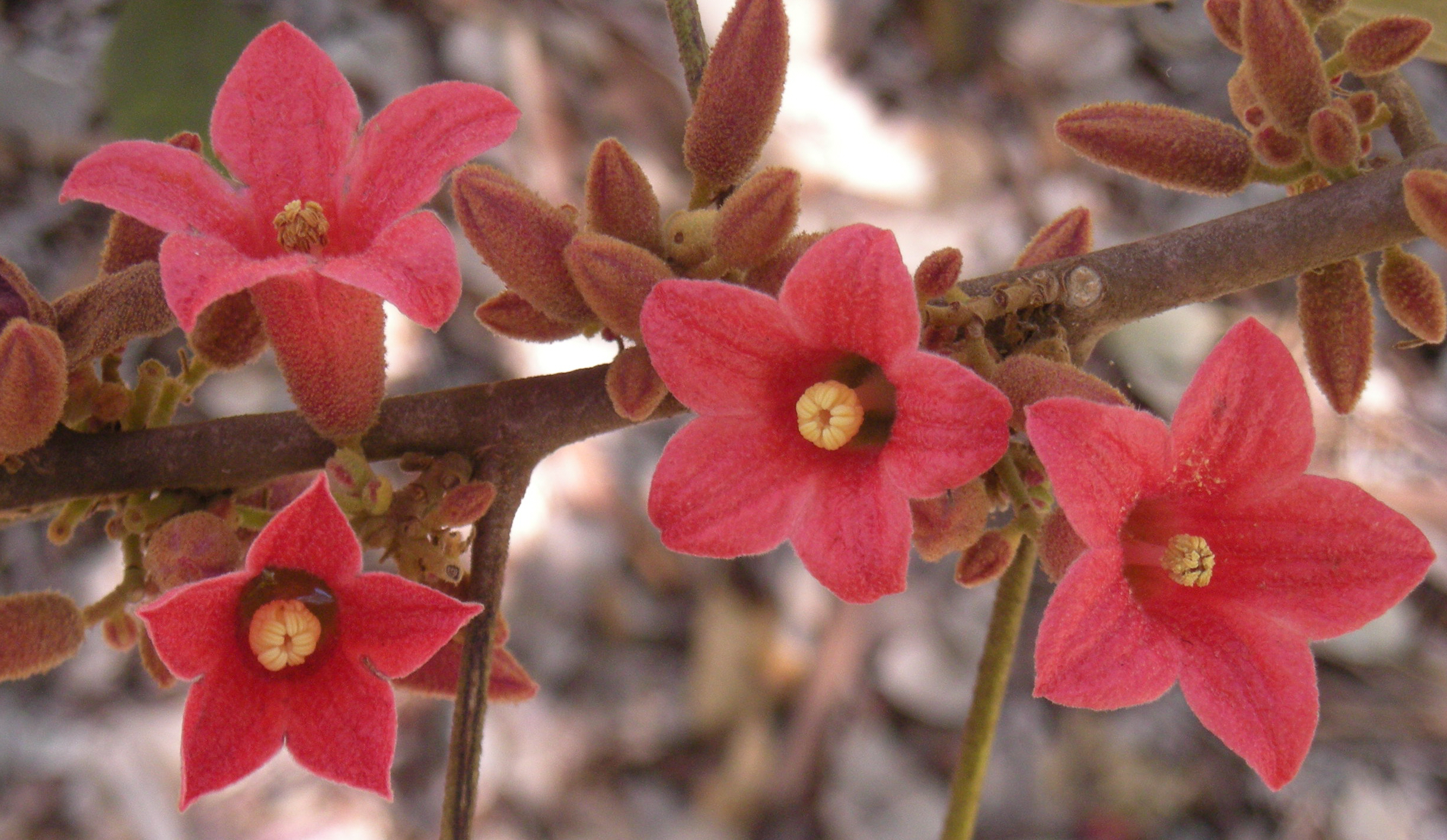 Brachychiton bidwillii flowers. Malborough, Central Queensland.